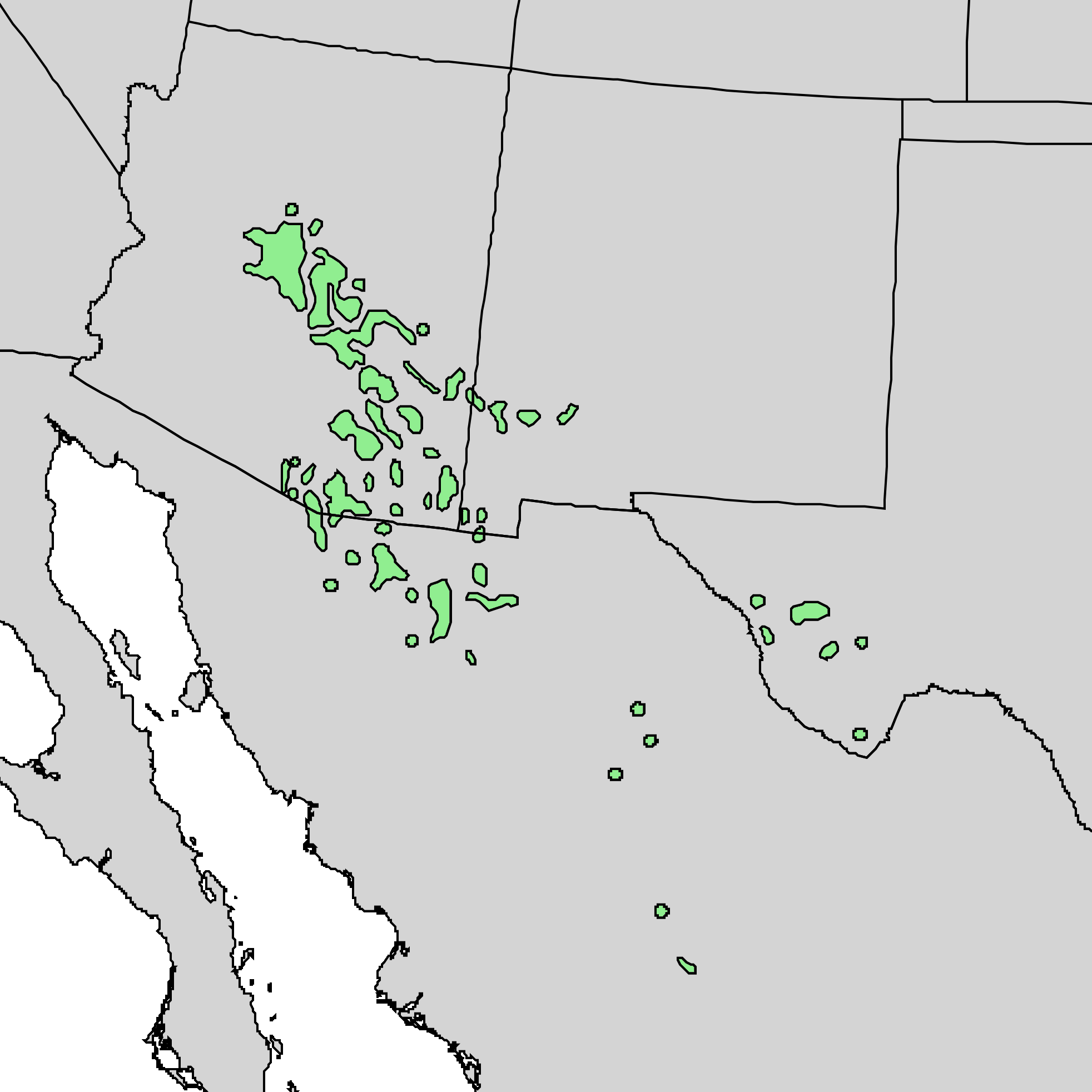 Natural distribution map for Quercus emoryi